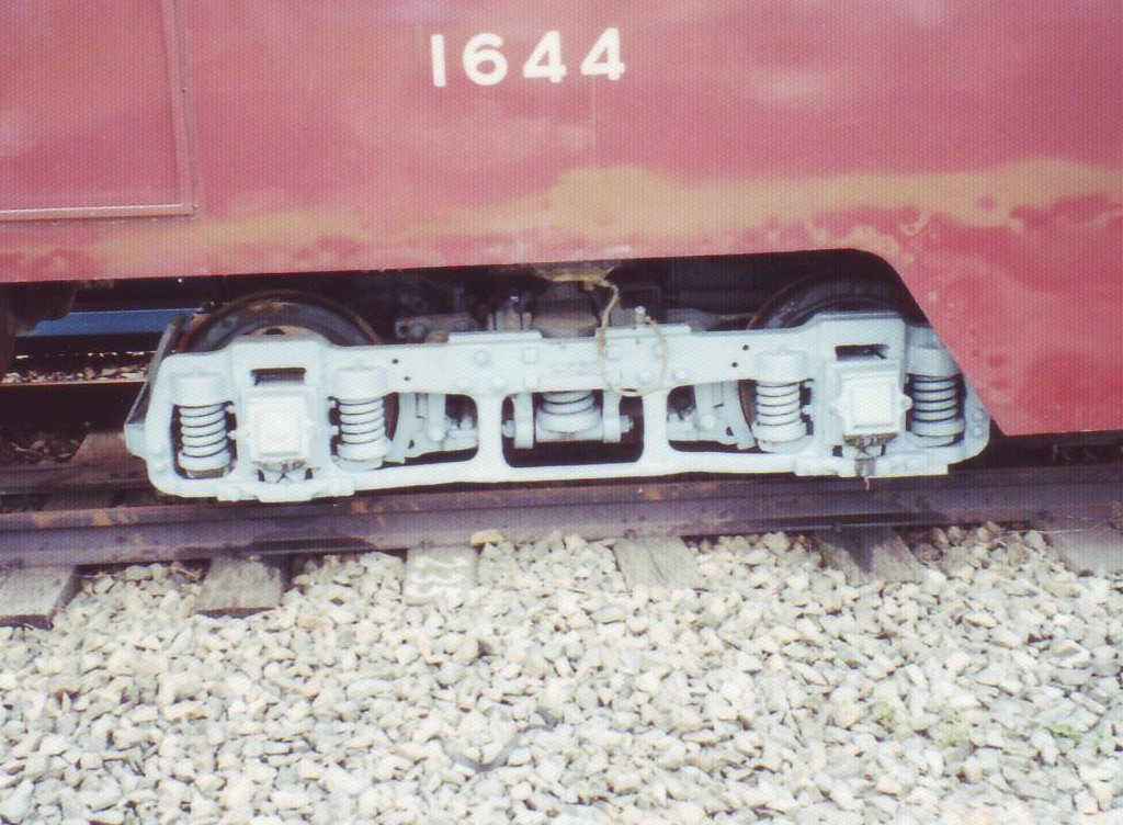 Bogie of Osaka City Tram #1644. taken in 1993.